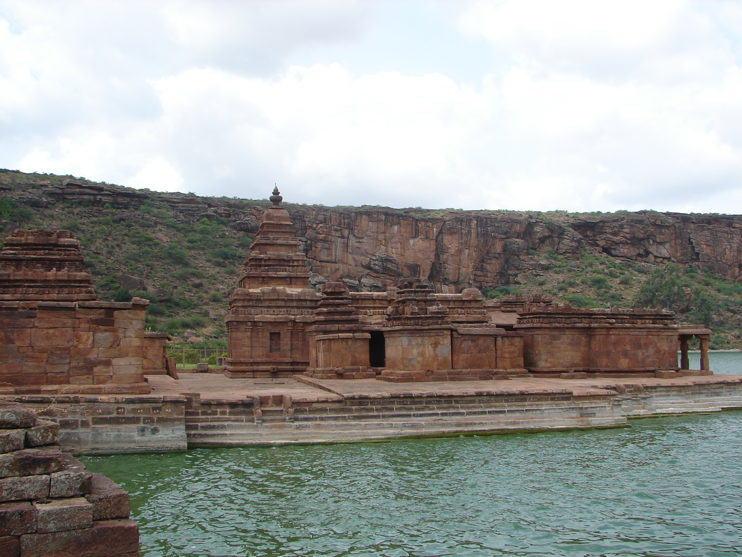 The Bhutanatha group of temples in Badami, Karnataka, India, was built by the Chalukya dynasty of Badami in 7th century. It faces the Badami tank.